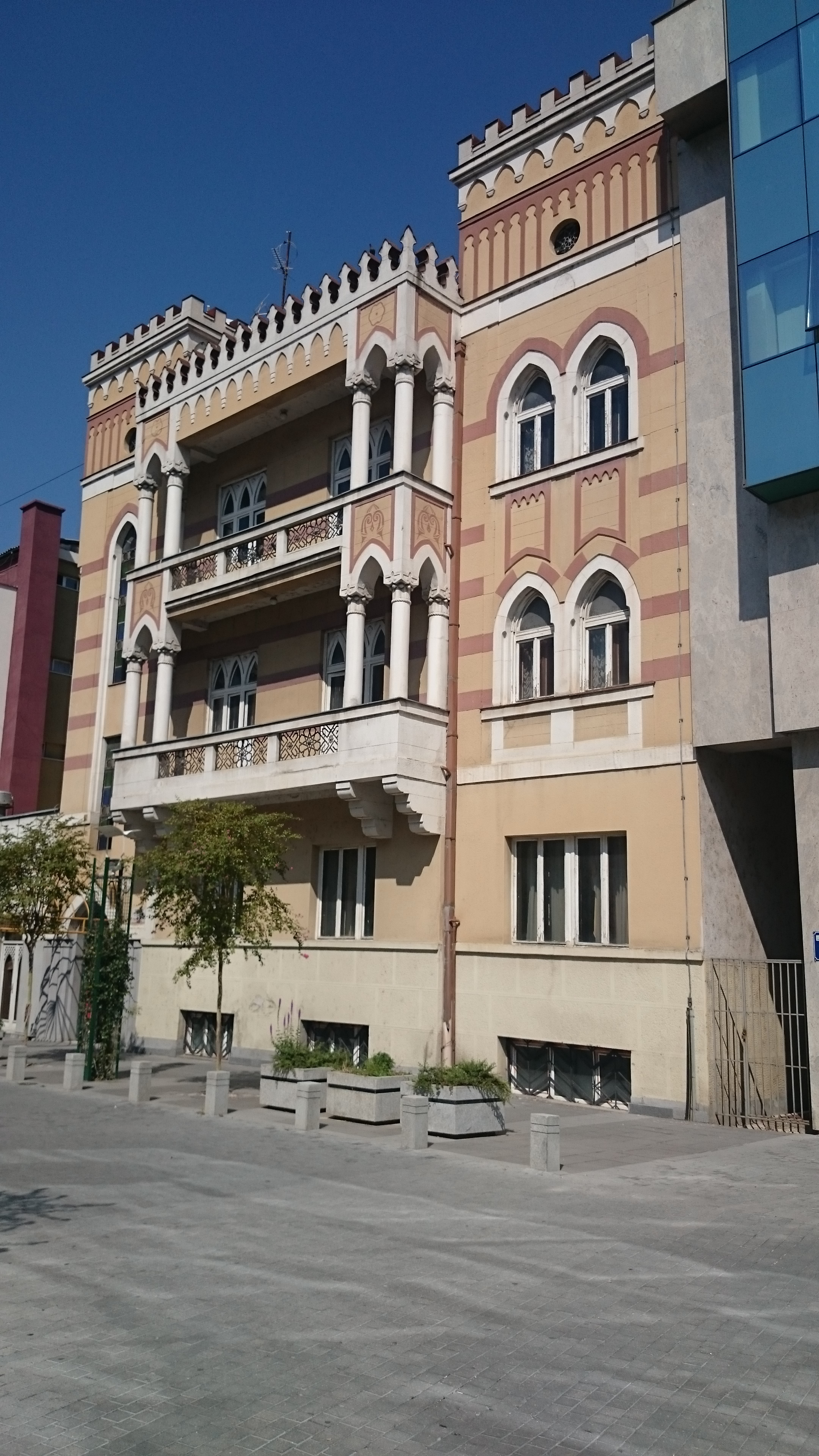 Hotel Jadran aka Arabian House in Skopje, Macedonia Оваа фотографија е на објект прогласен за културно наследство на Македонија според евиденцијата во Регистарот на културно наследство на Управата за заштита на културното наследство на Македонија Ова е фотографија на споменик на културата во Македонија со типски код: B011This is a a photo of a cultural monument in North Macedonia with type id: B011